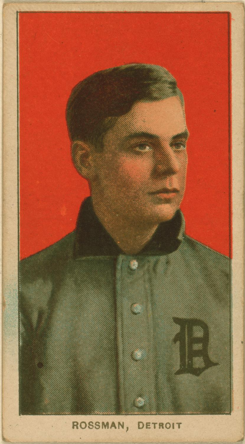 Baseball card of Claude Rossman